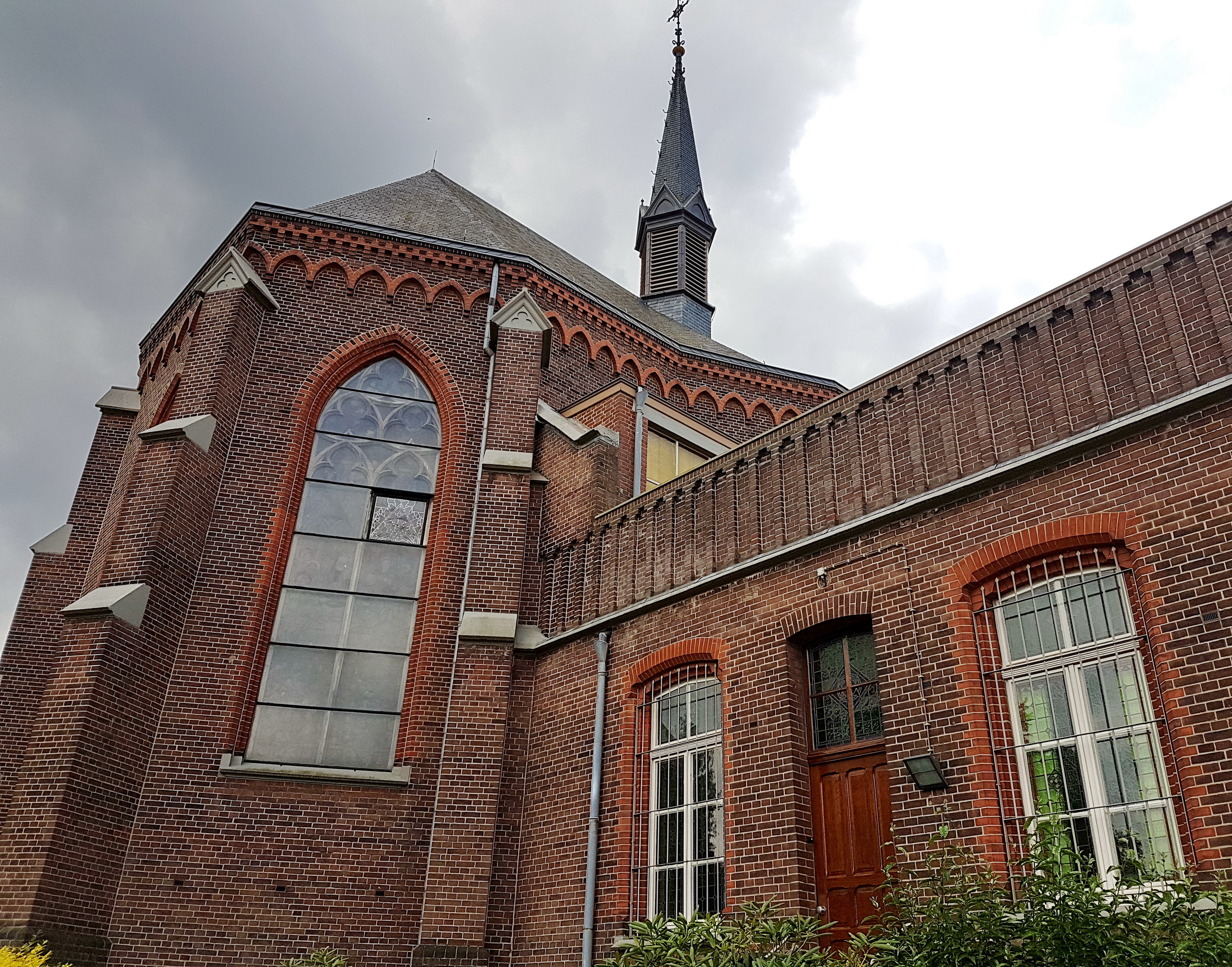 Detail of the north elevation and chapel of the Monastery of the Holy Ghost in Steyl, Venlo, the Netherlands. This is the mother house of the RC Congregation of the Servants of the Holy Spirit of Perpetual Adoration (Servae Spiritus Sancti de Adoratione Perpetua; SSpSAP).